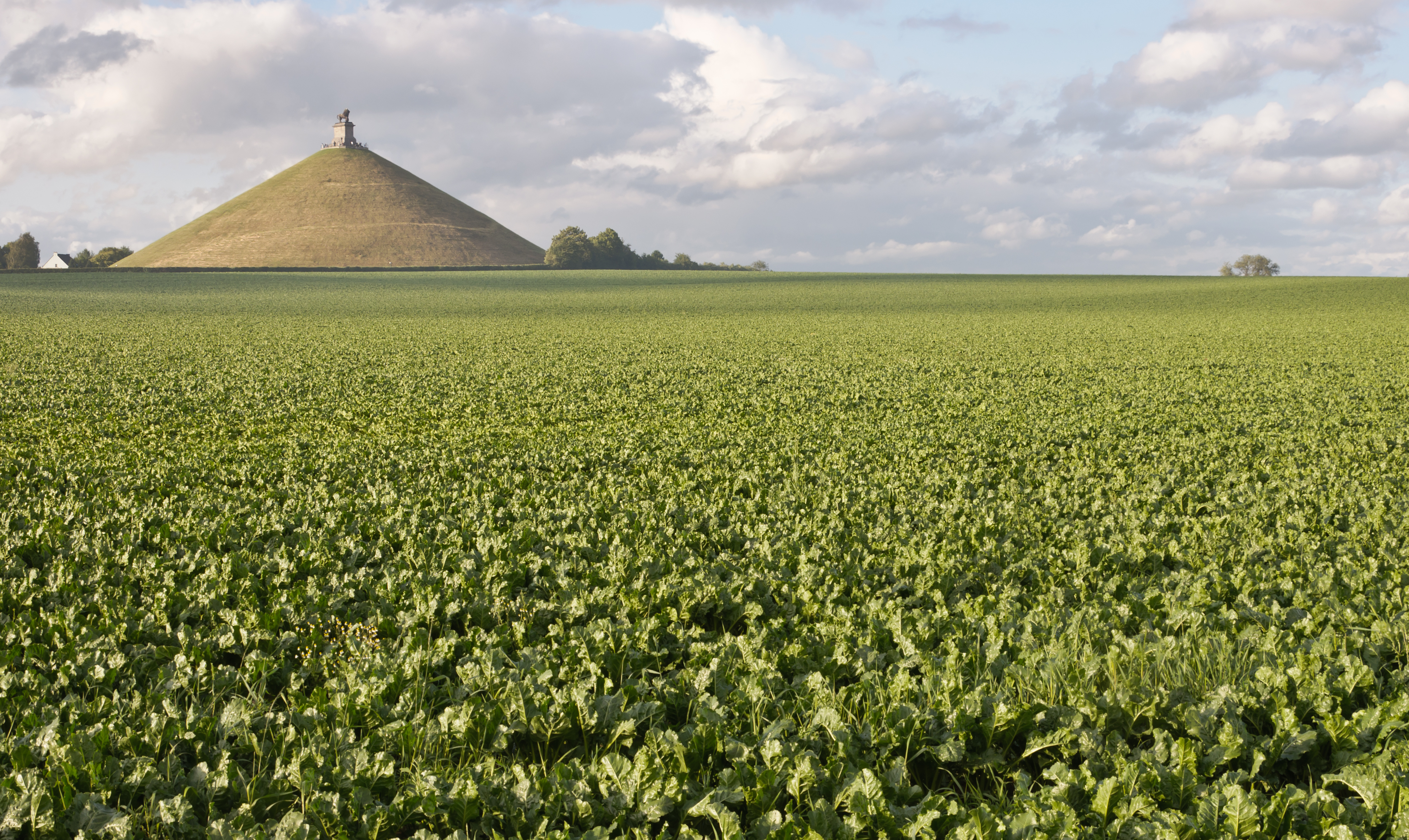 The Lion's Mound overlooking the site of the battle of Waterloo, here cultivated with beets, in Braine-l'Alleud, Belgium.